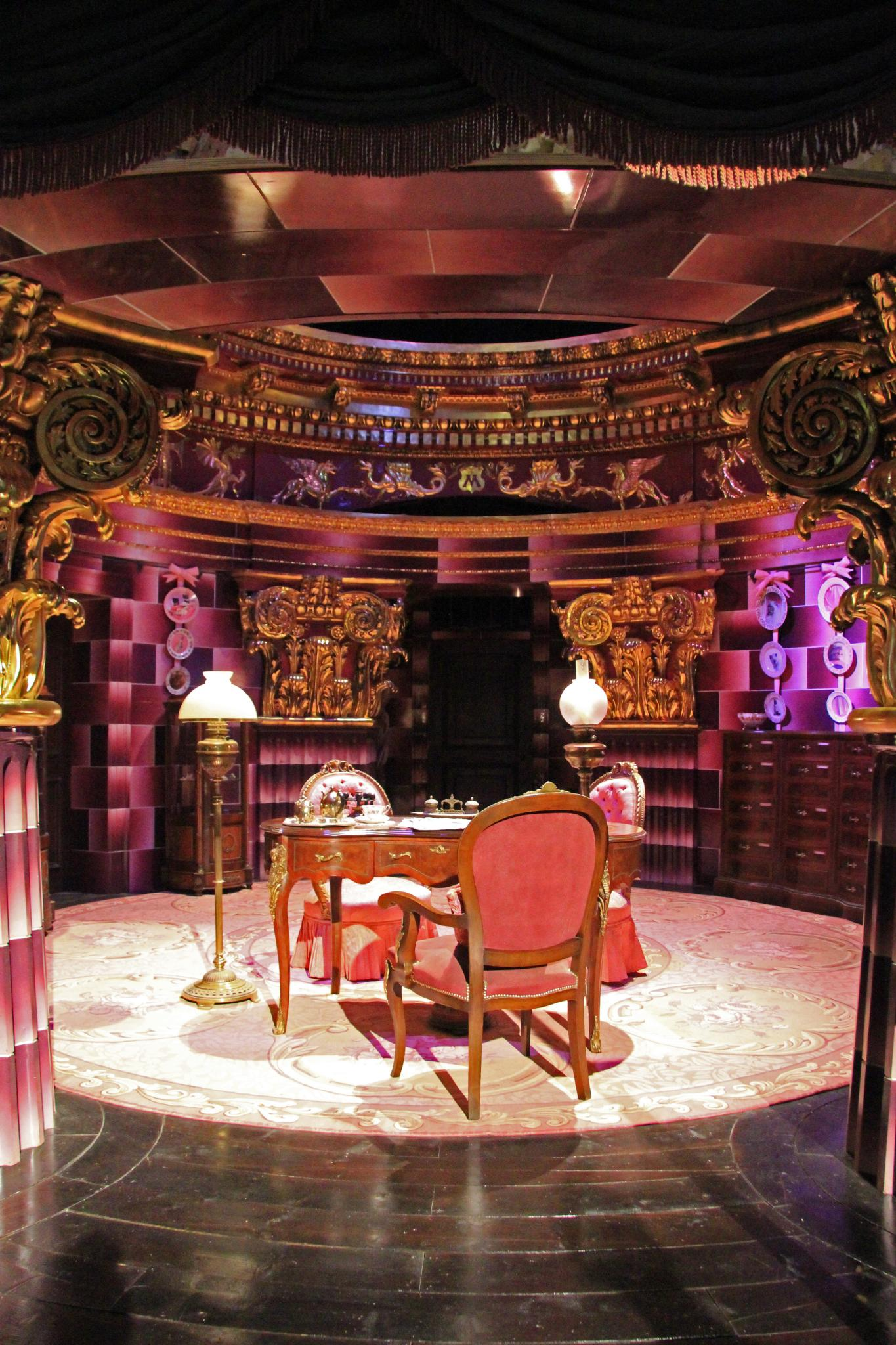 Warner Bros. Studio Tour London: The Making of Harry Potter.